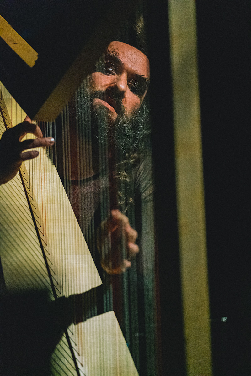 with self built harp